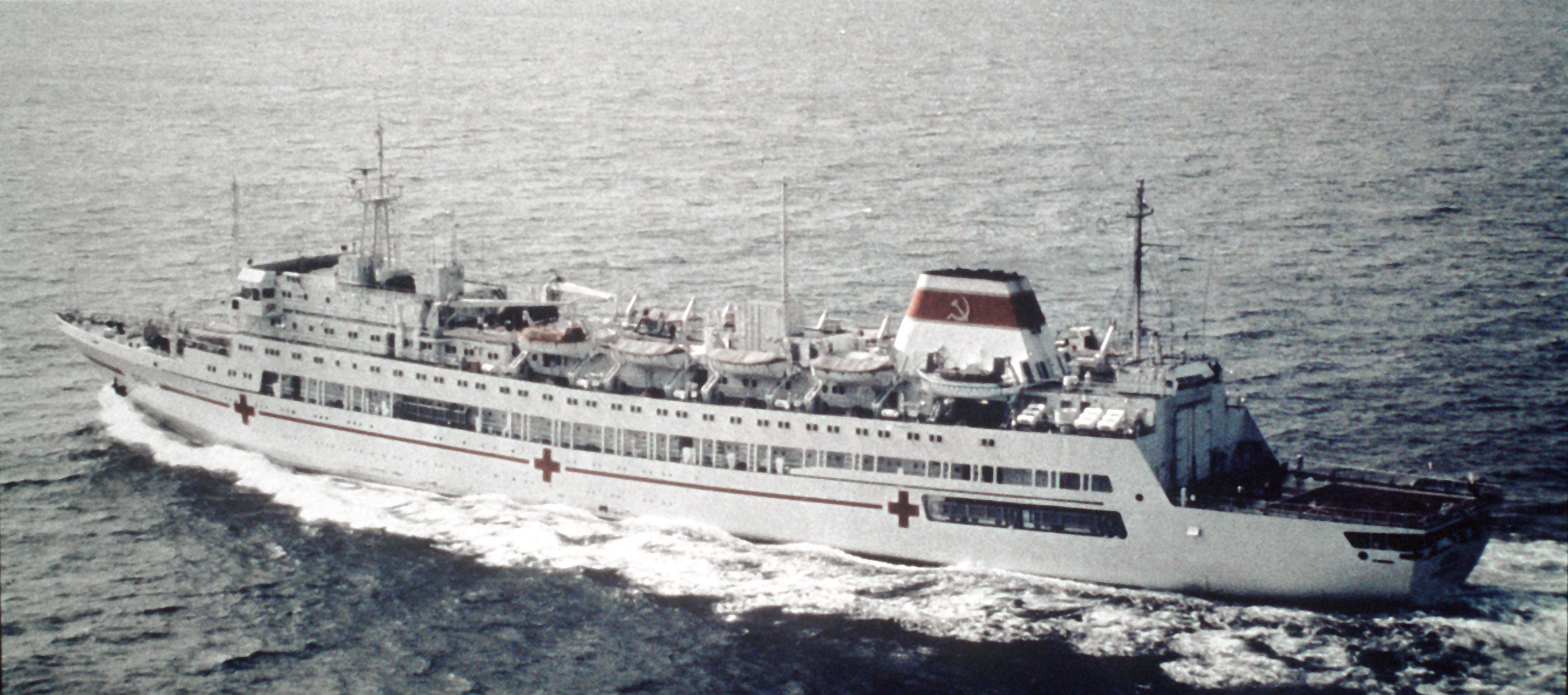 An aerial port quarter view of Soviet Ob' class hospital ship Ob underway.